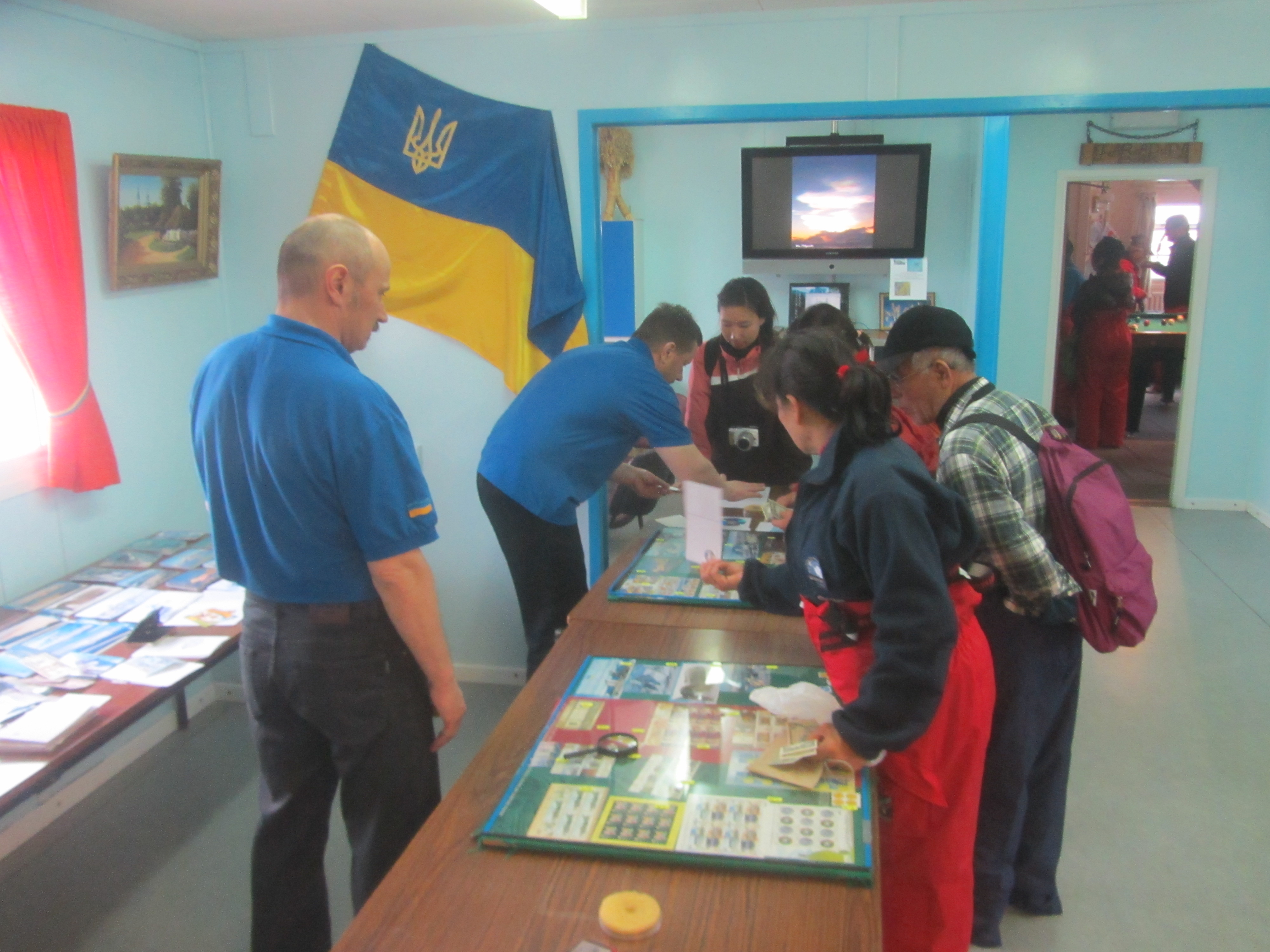 Tourists visit the post office inside Verandsky Station (Ukraine)